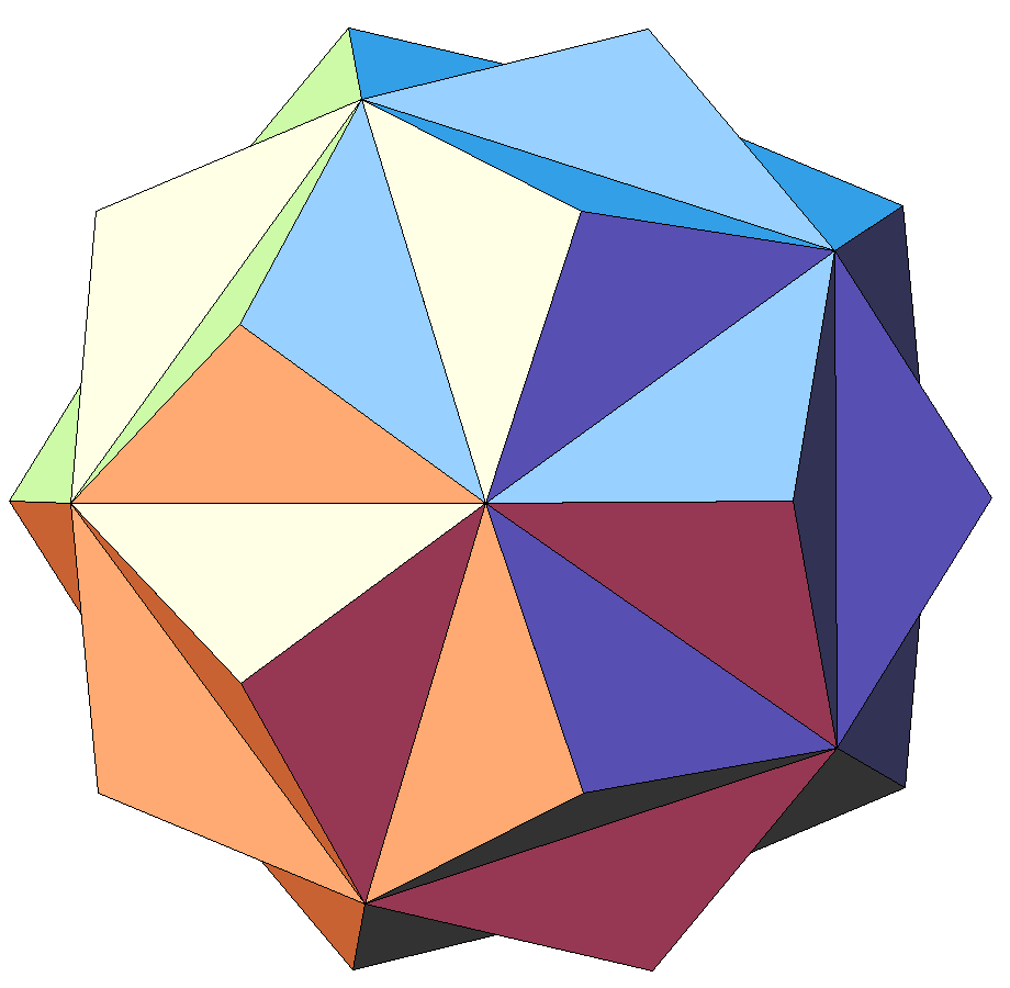 First stellation of icosidodecahedron.